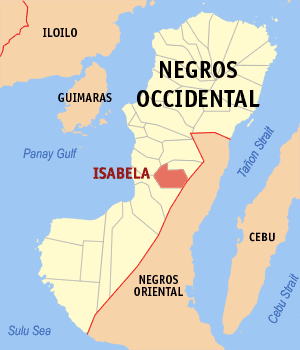 Map of Negros Occidental showing the location of Isabela